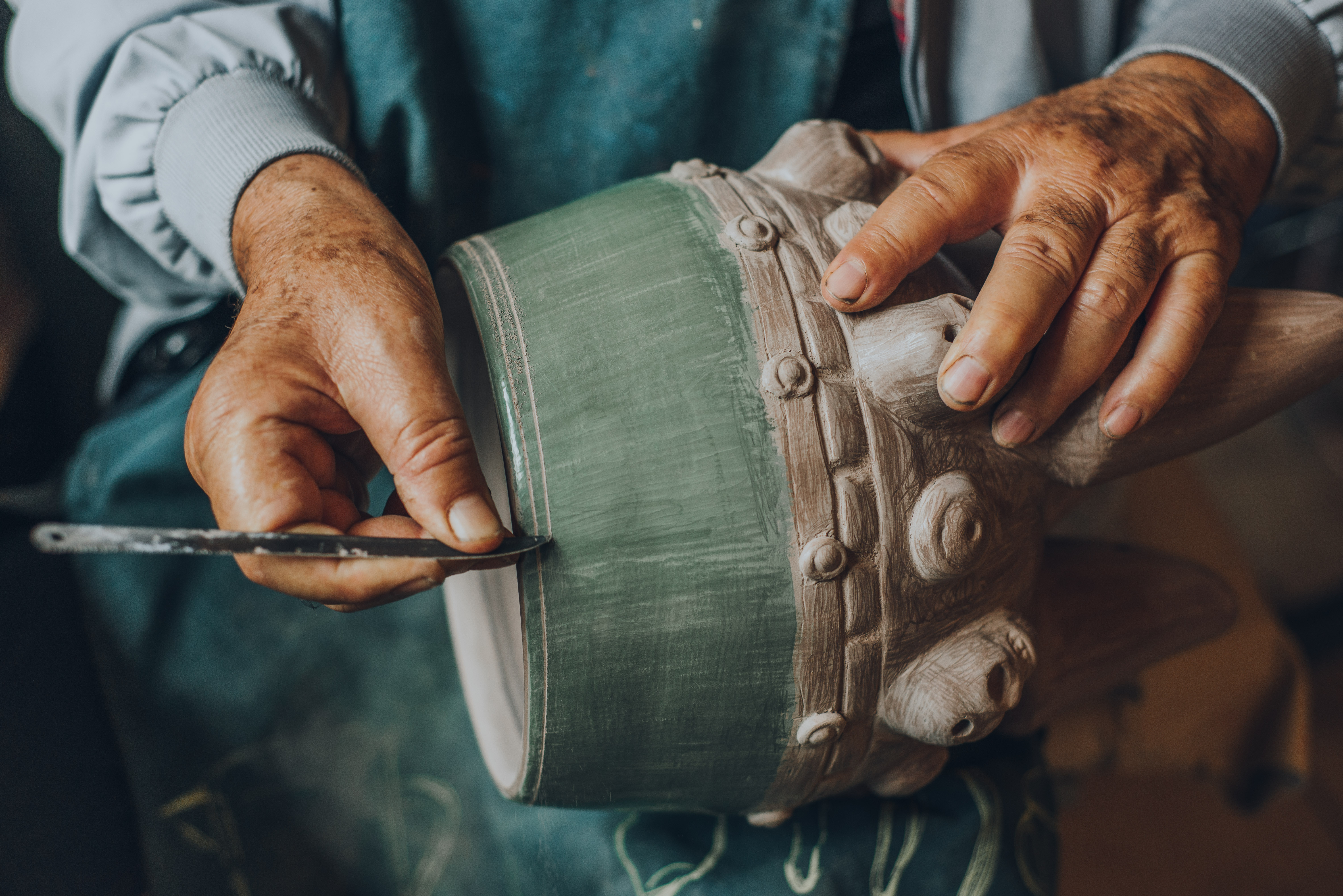 Mexican artist Trinidad Trino Nuñez in his home studio, September 29, 2018 by Anthony Arena